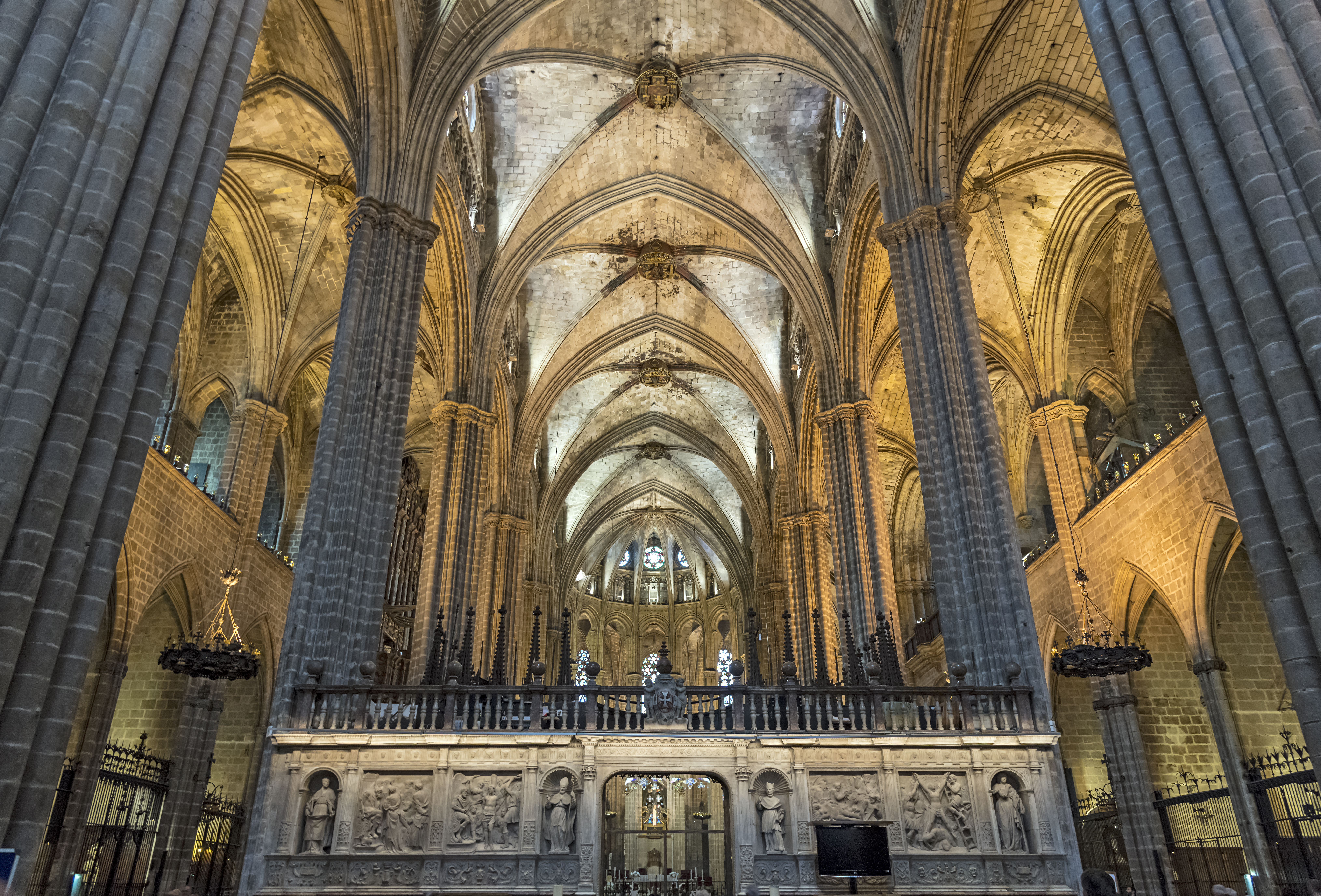 The Cathedral of the Holy Cross and Saint Eulalia in Barcelona. The entrance of the brothers' choir and the ceiling.